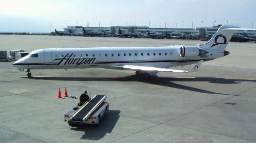 June 2003 - Horizon CRJ-700 arriving at Denver International Airport. (photo by )